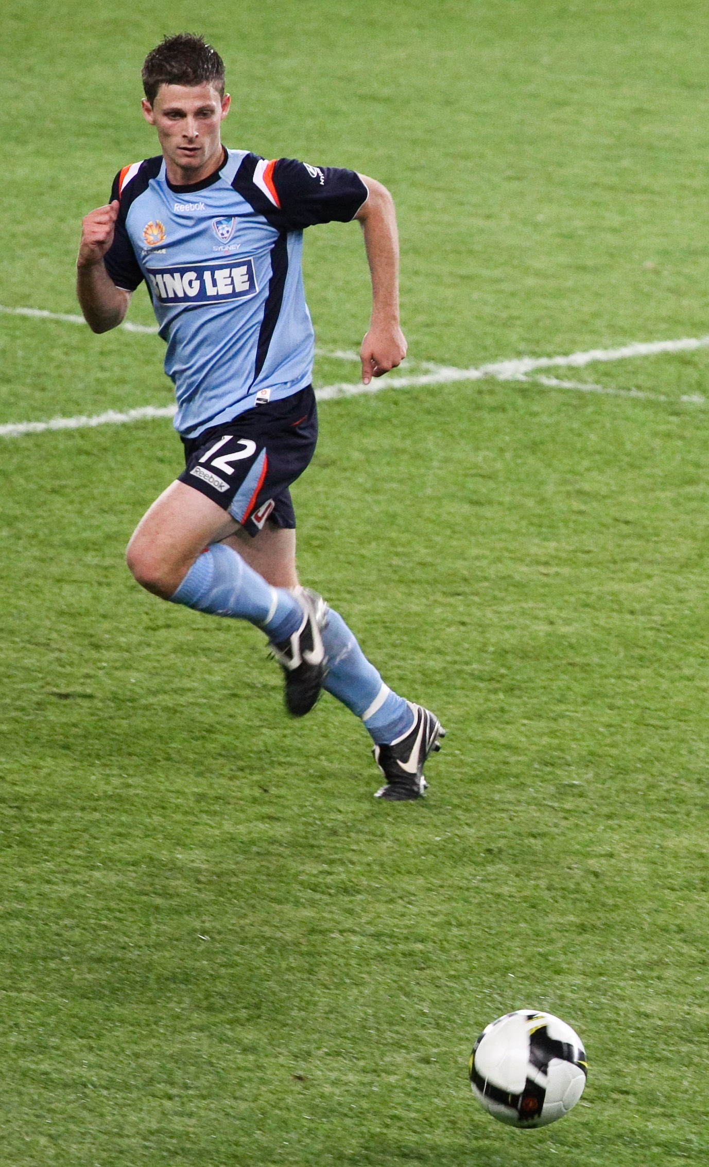 Shannon Cole playing against Adelaide United at the Sydney Football Stadium in the A-League round 5.